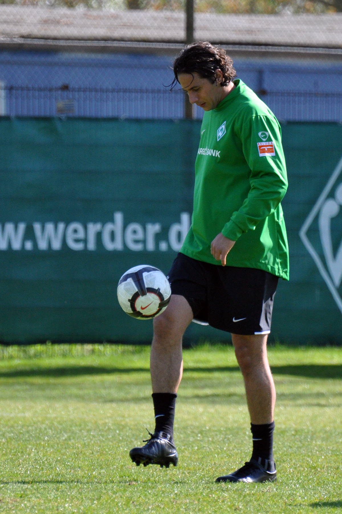 Claudio Pizarro, April 2010.